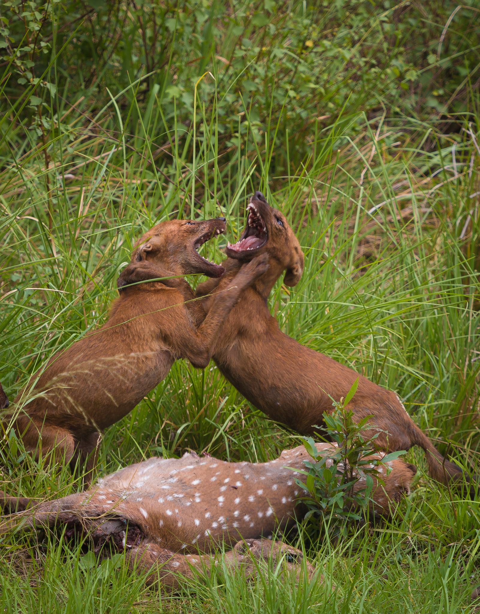 Dholes squabble over a deer kill at Tadoba Andhari Tiger Reserve